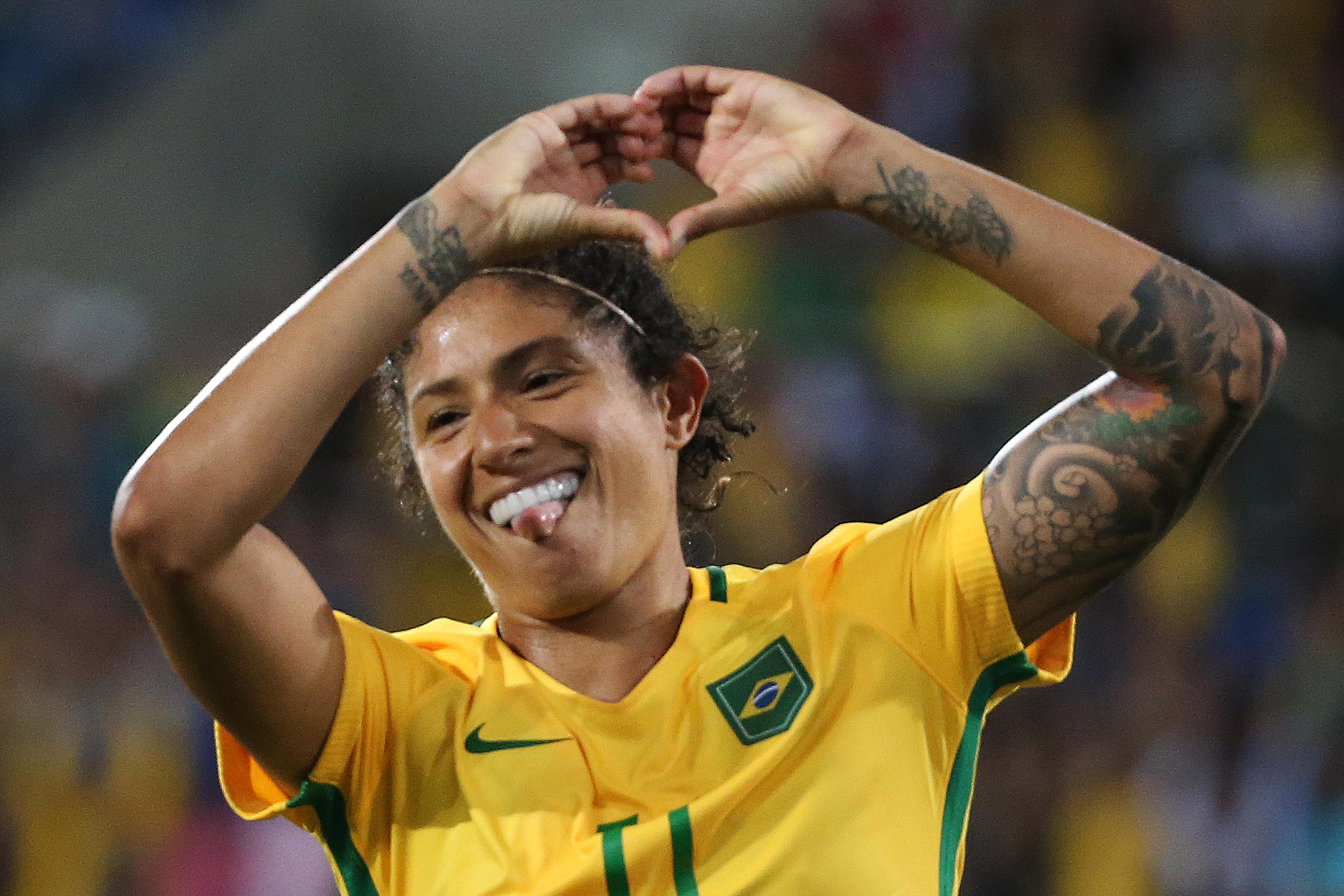 Rio de Janeiro - Brasil e China, futebol feminino, jogo da Rio 2016 (Roberto Castro/Brasil2016)